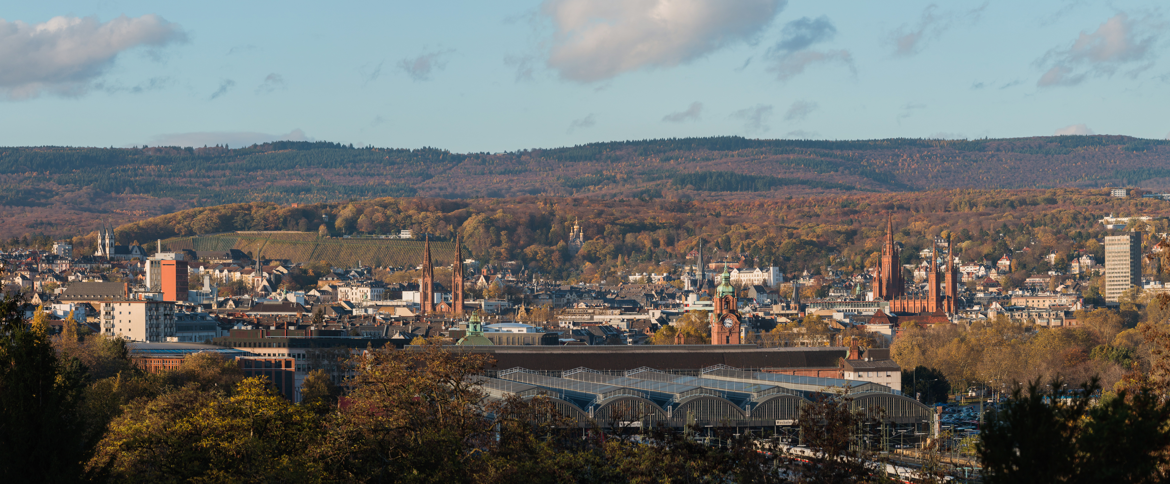 Wiesbaden city center in fall